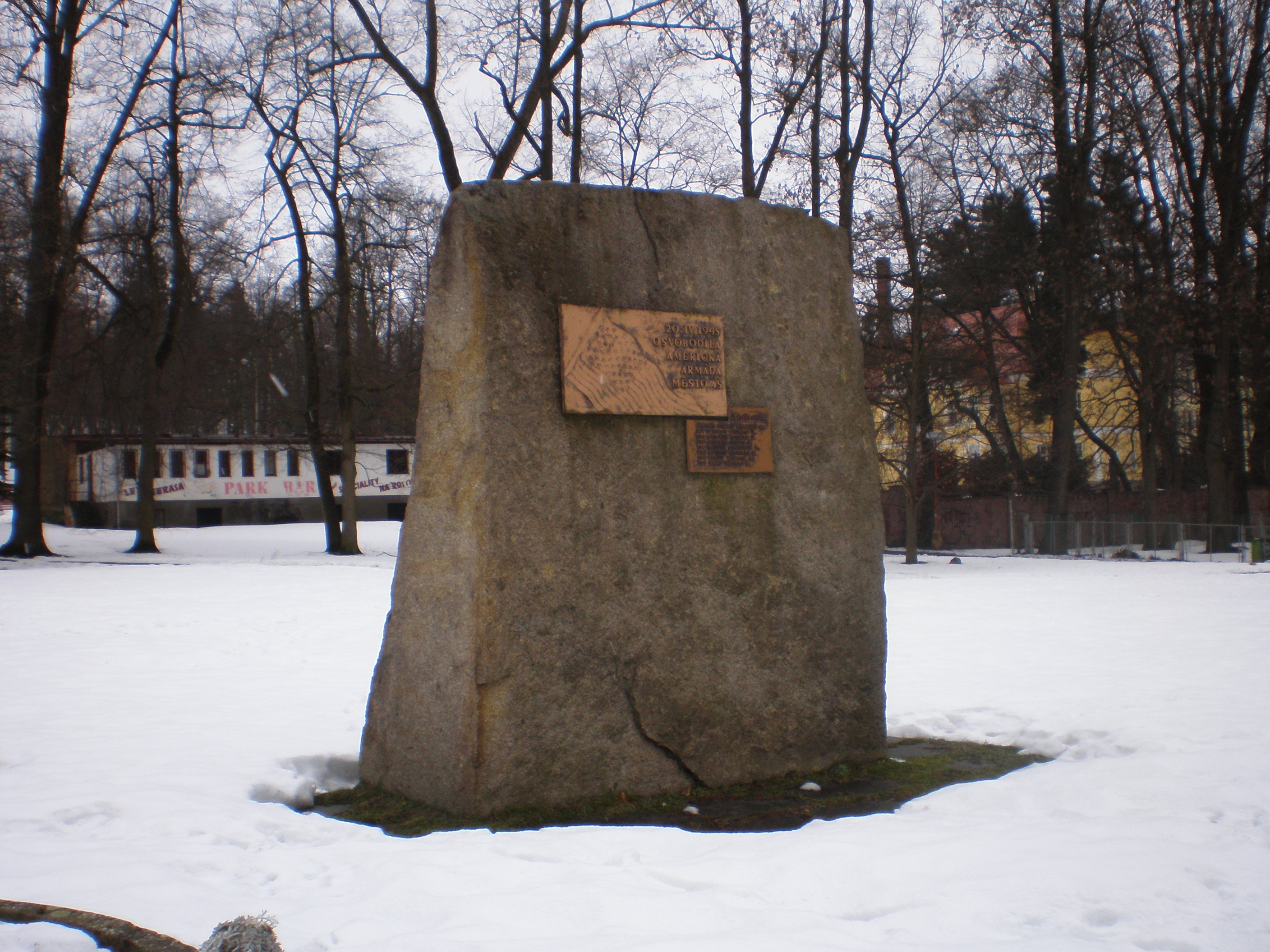 Aš, US Memorial